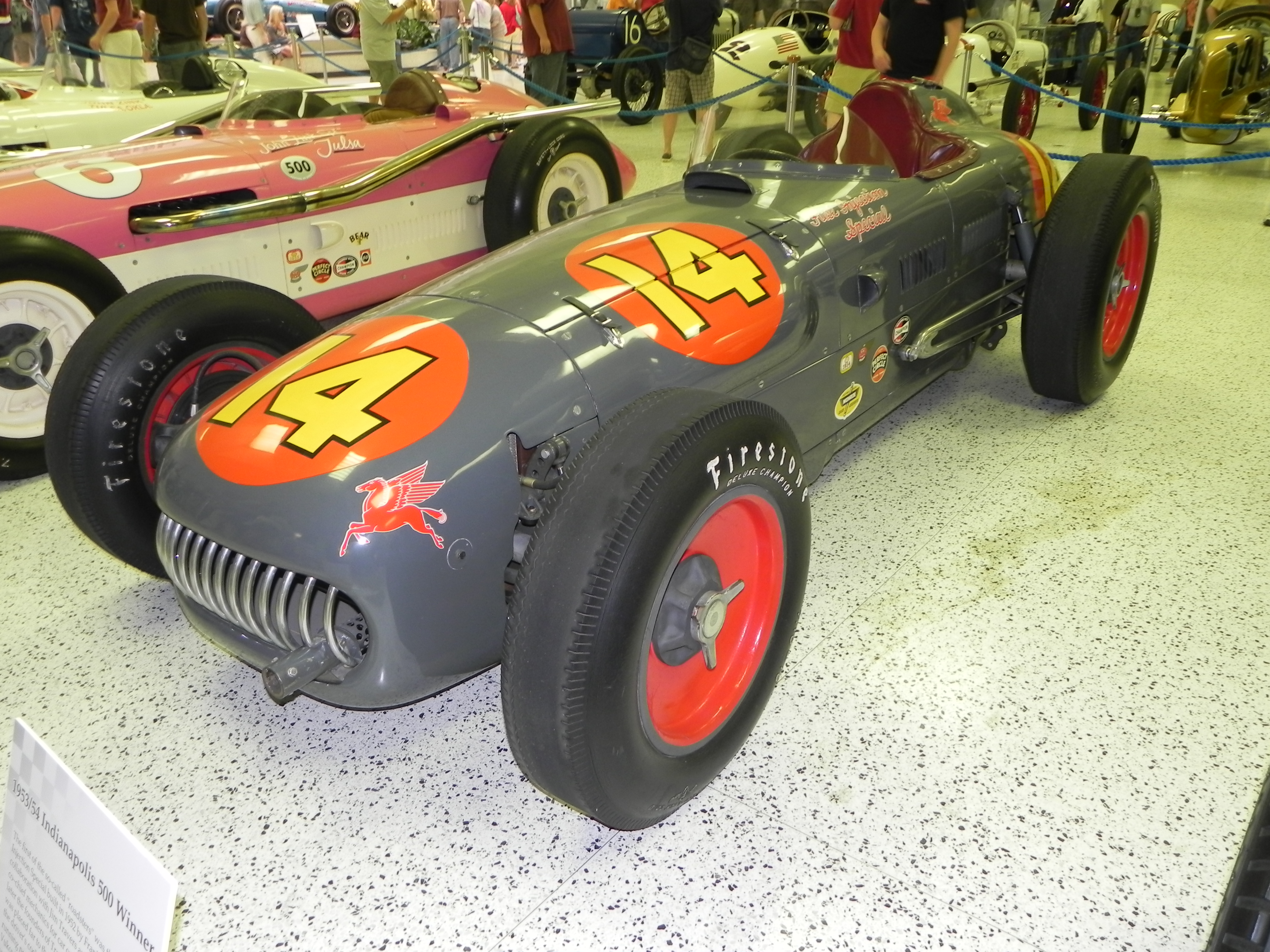 Image of the winning car of the 1953 and 1954 Indianapolis 500 (Bill Vukovich). Photo was taken at the Indianapolis Motor Speedway Hall of Fame Museum, during the month of May 2011, at the 100th Anniversary "Ultimate Indianapolis 500 Winning Car Collection."